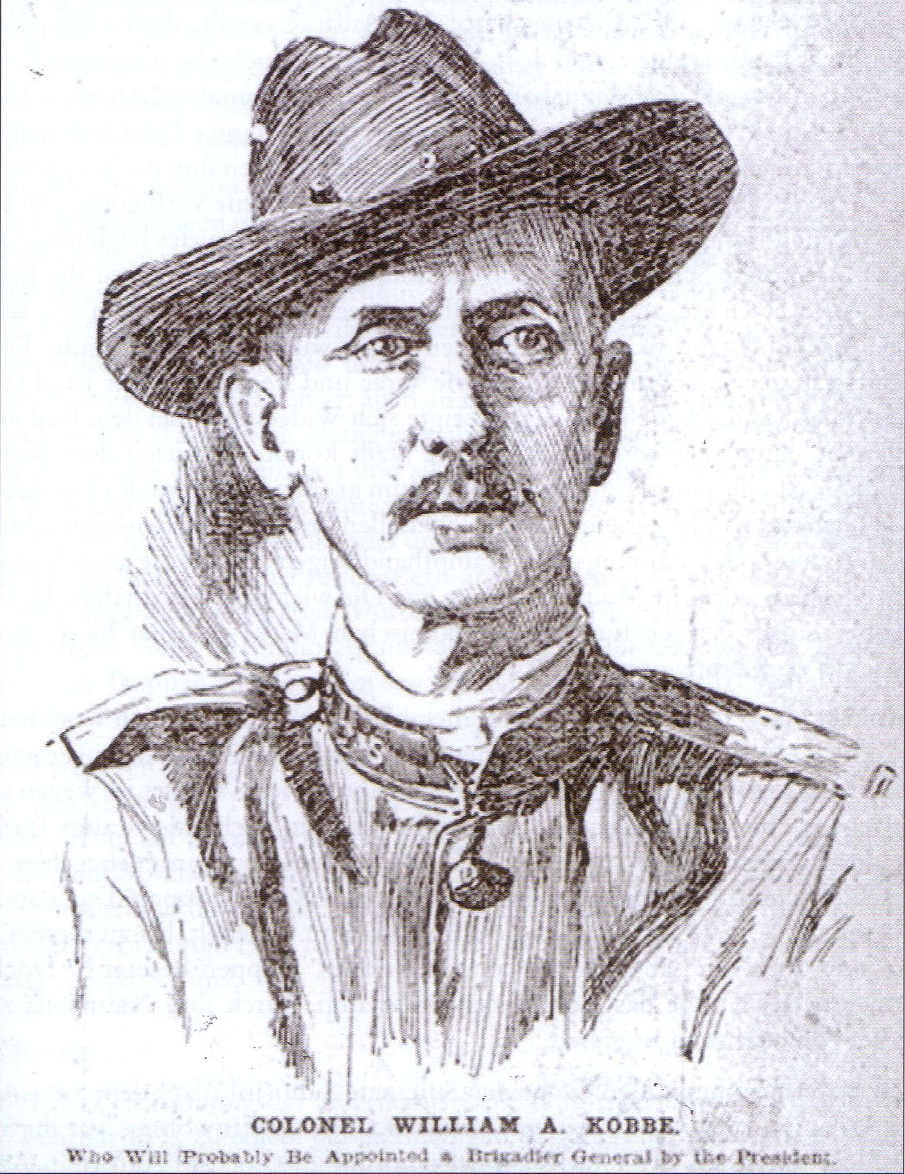 Drawing of Colonel, then Brigadier General, William August Kobbé